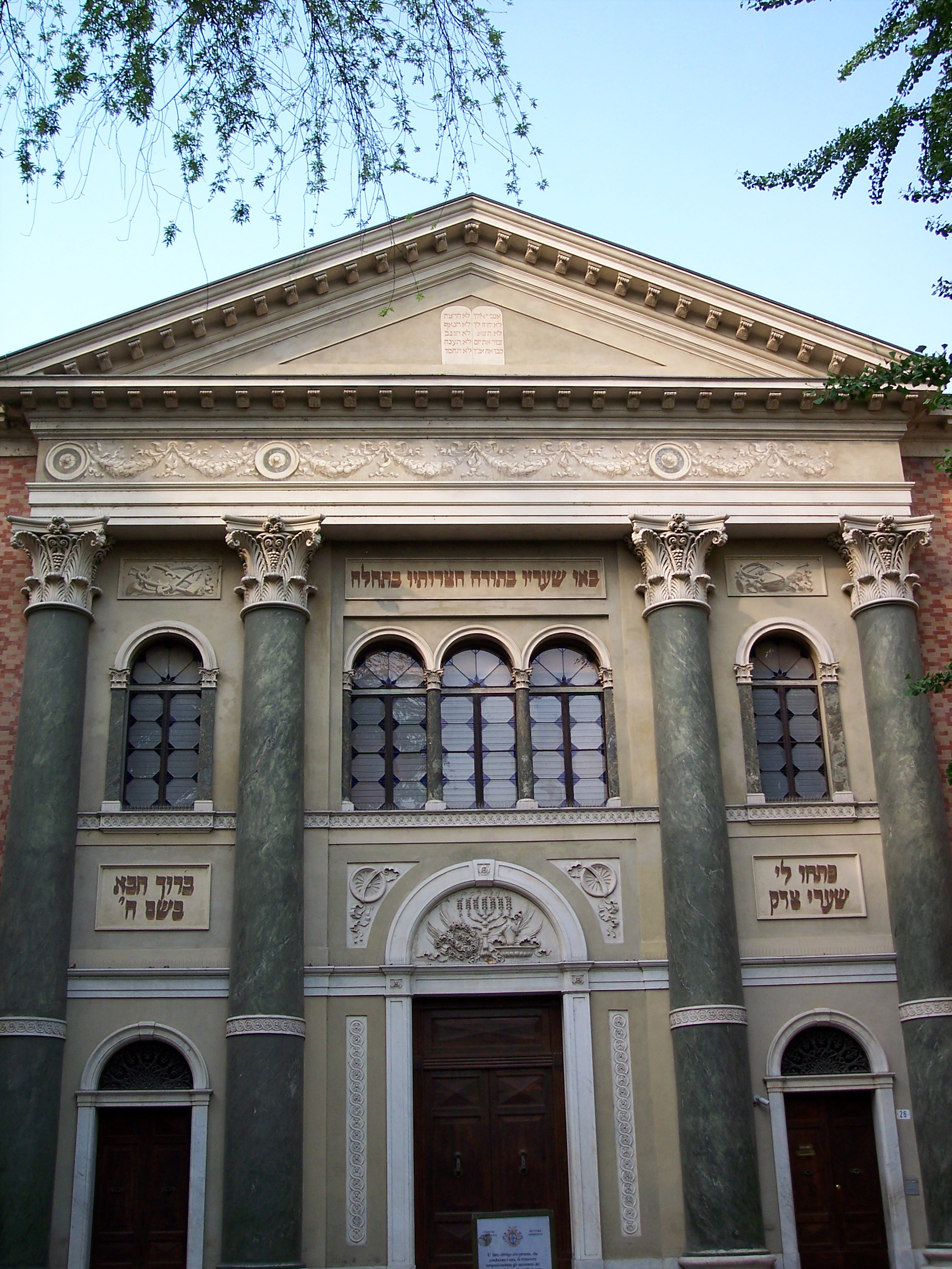 The synagogue of Modena, Italy, in may 2009.